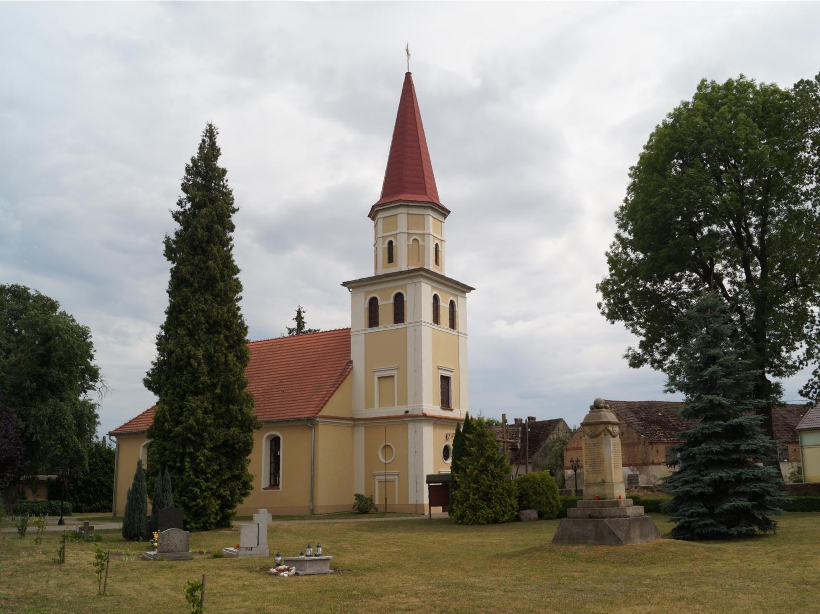 Kościół w Różankach